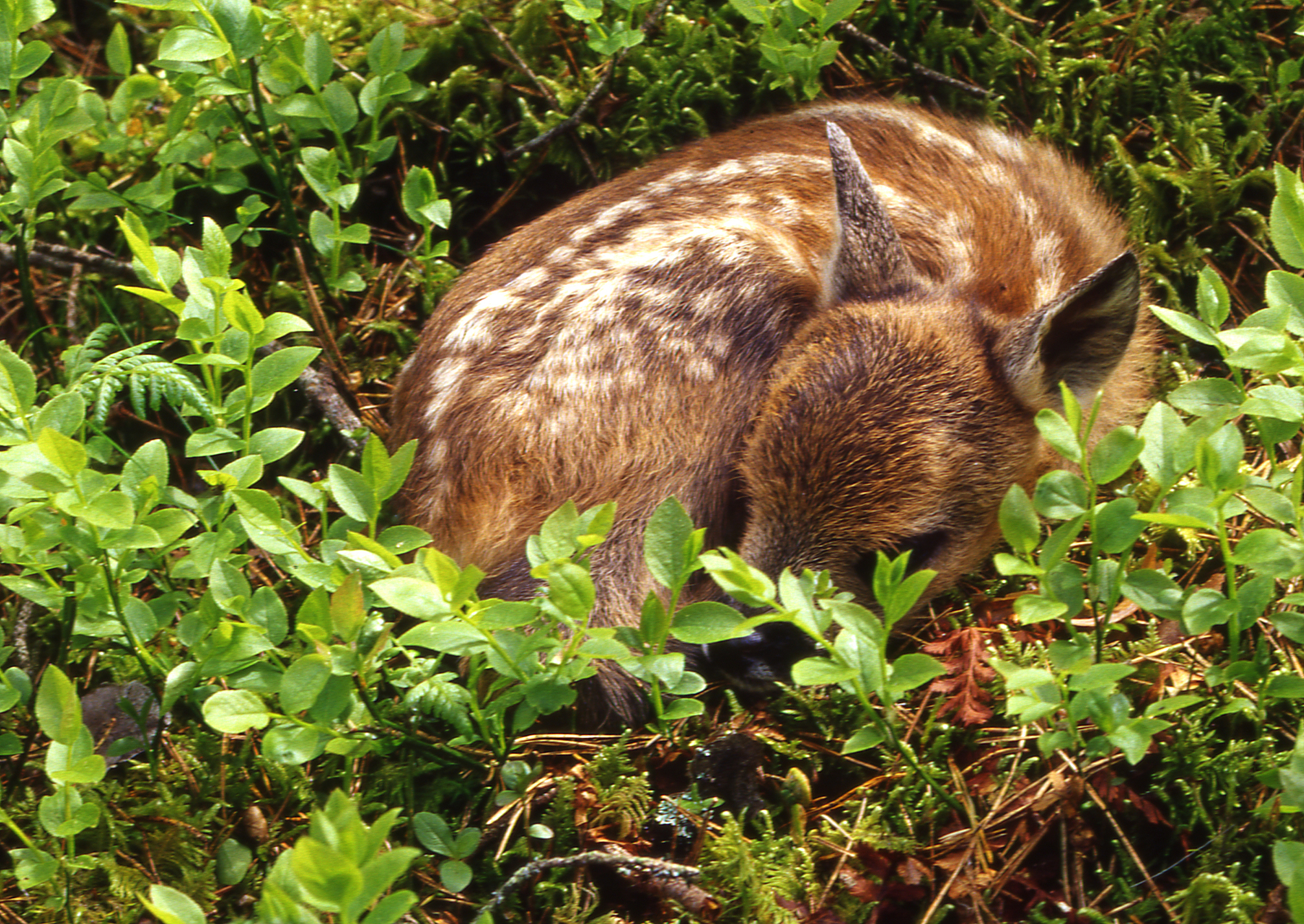 Roe deer fawn (Capreolus capreolus) in Sörby parish, Vilske hundred, Falköping municipality, former Skaraborg county, Västergötland, Västra Götalnds län, Sweden. The fawn lies among the bilberry upon a little, overturfed clearence cairn in the western part of the clearence cairn area RAÄ No Sörby 84.